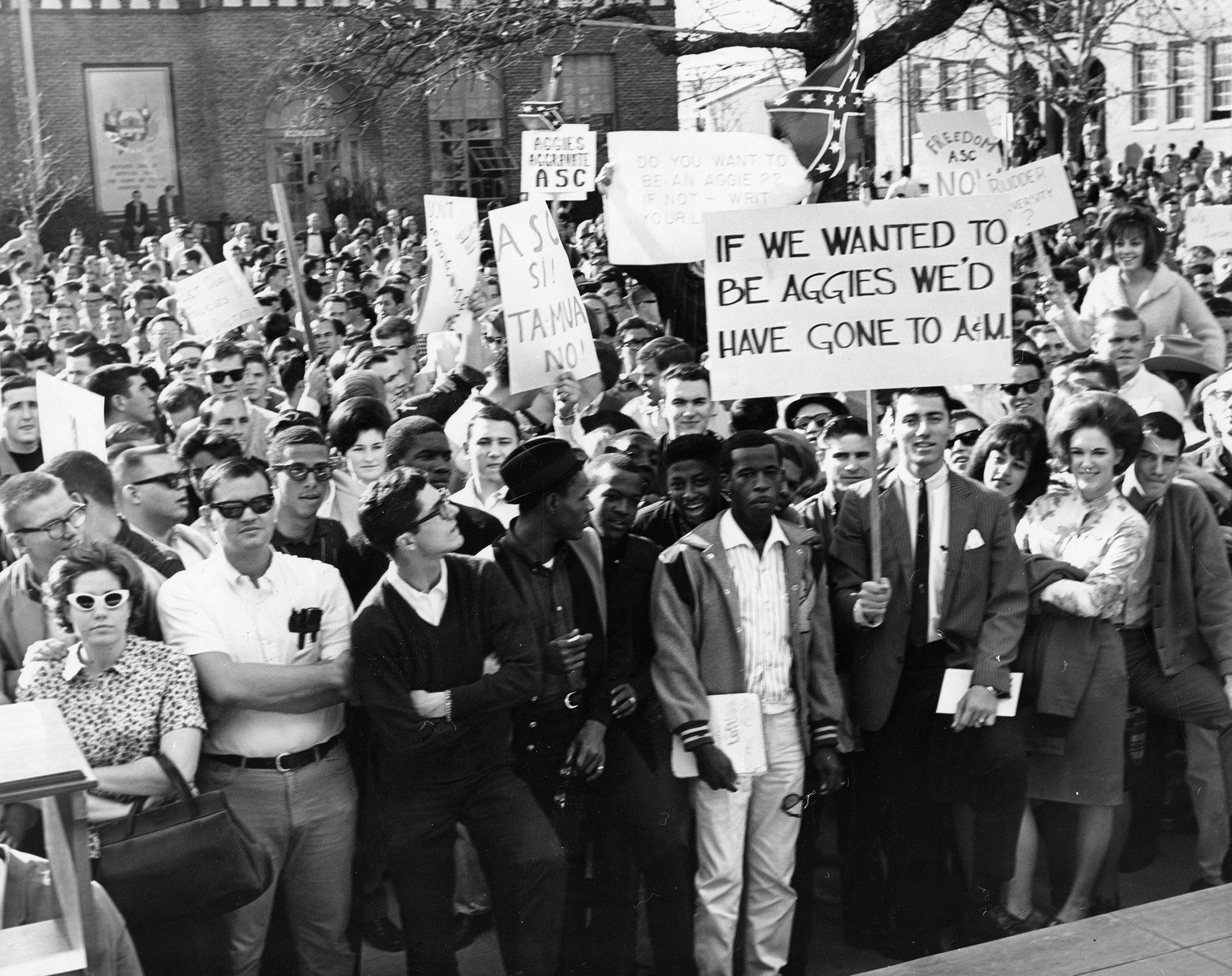 Arlington State College during Texas A&M controversy; student crowd protests with signs: "If we wanted to be Aggies we'd have gone to A&M."